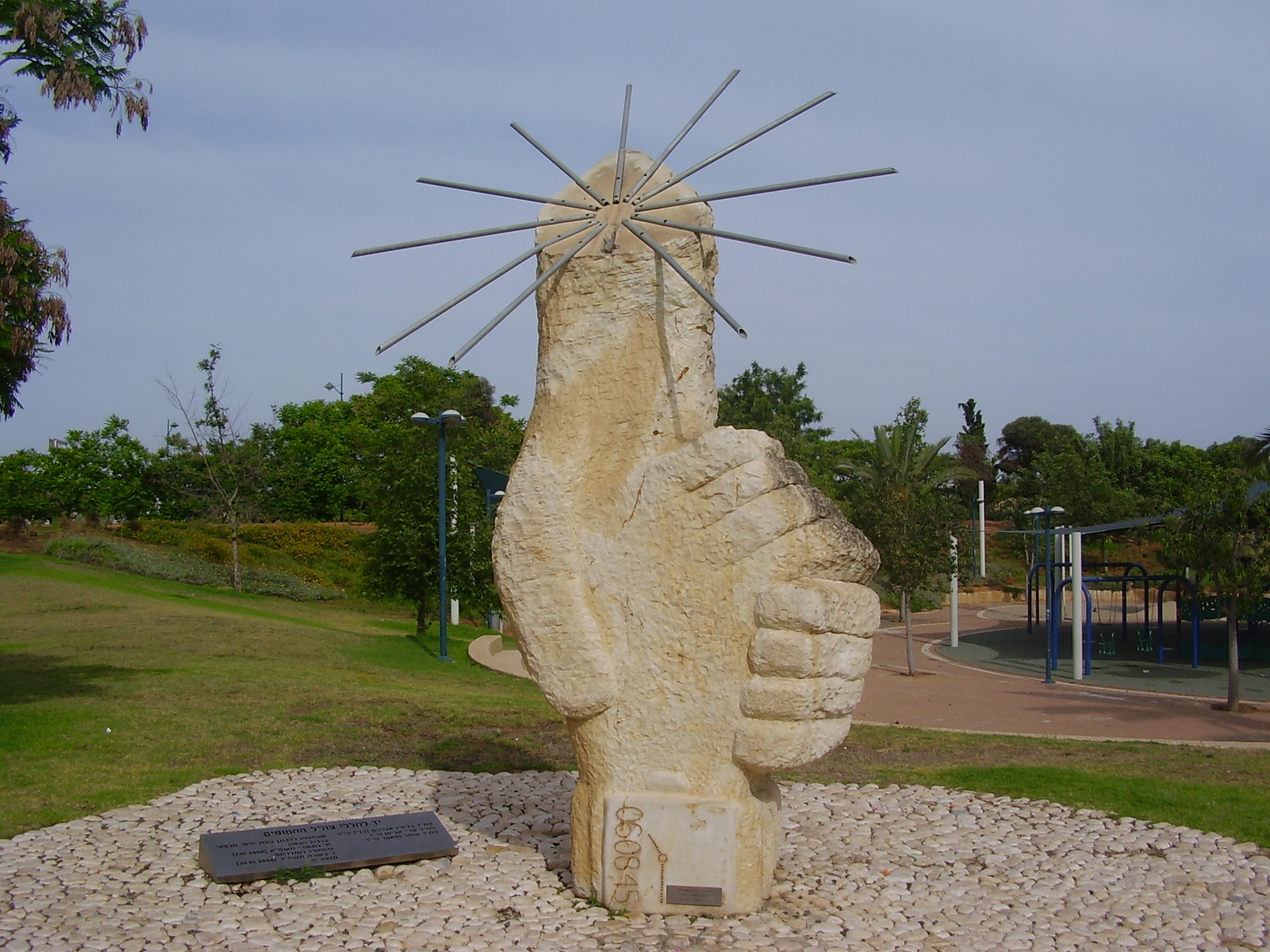 Memorial in Petah Tikva to 3 IDF soldiers, killed and kidnapped by hezbulla in 10/2000